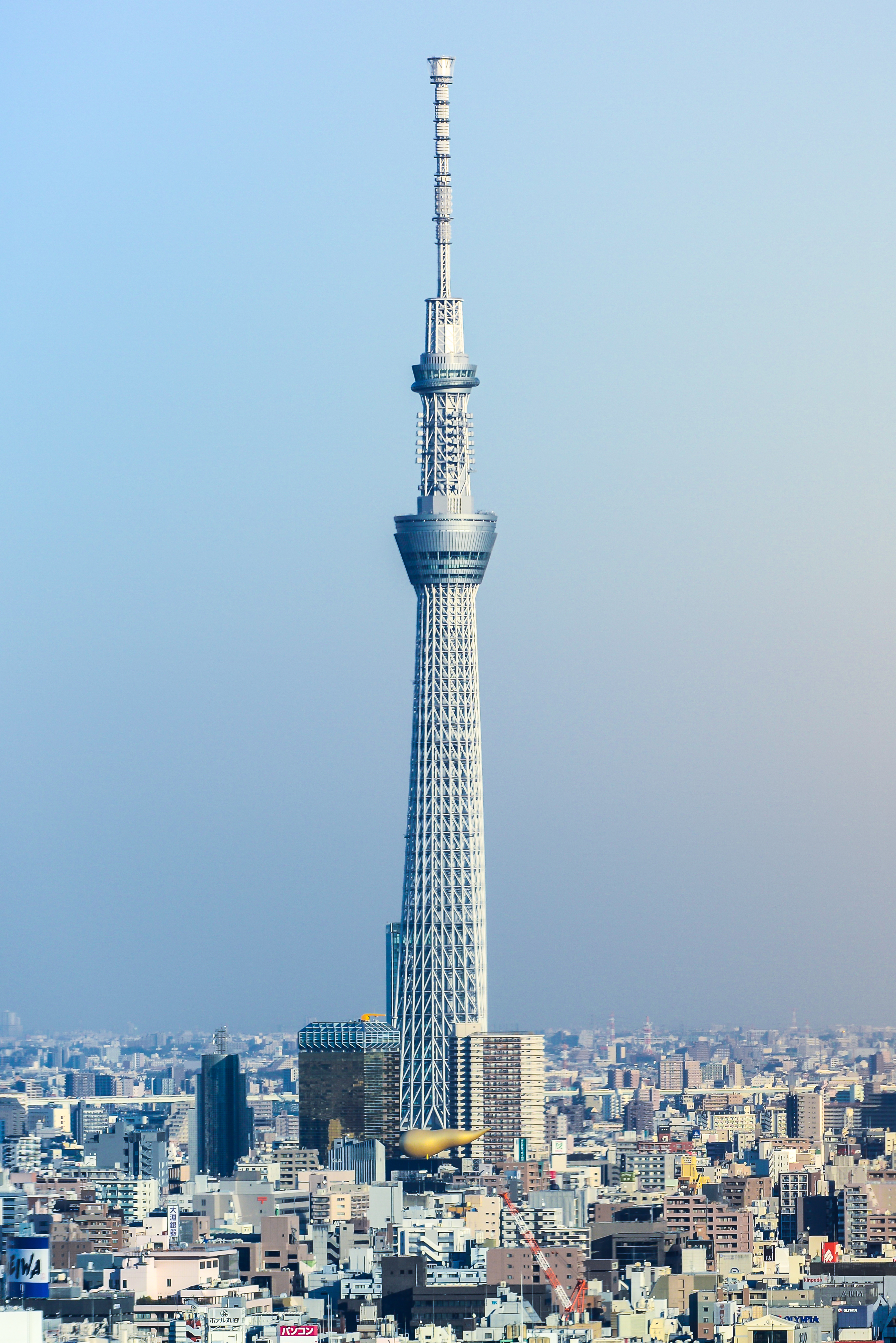 The Tokyo Sky Tree.